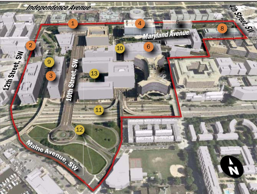 Map of the boundaries of the Southwest Ecodistrict, an initiative of the U.S. National Capital Planning Commission which seeks to redevelop L'Enfant Plaza and its environs into a multi-modal mixed-use neighborhood of significant cultural attractions and public spaces, offices, residences, and amenities. Numbered circles on the map correspond to the following: 1 - U.S. Department of Energy/James V. Forrestal Complex 2 - Cotton Annex 3 - U.S. Postal Service headquarters 4 - Federal Aviation Administration headquarters 5 - Federal Aviation Administration headquarters 6 - General Services Administration 7 - U.S. Department of Housing and Urban Development (Robert C. Weaver Federal Building) 8 - U.S. Department of Education 9 - 12th Street Tunnel 10 - CSX Rail Line/Maryland Avenue SW 11 - Southwest Freeway (Interstate 395) 12 - 10th Street Overlook/Benjamin Banneker Park 13 - L'Enfant Plaza